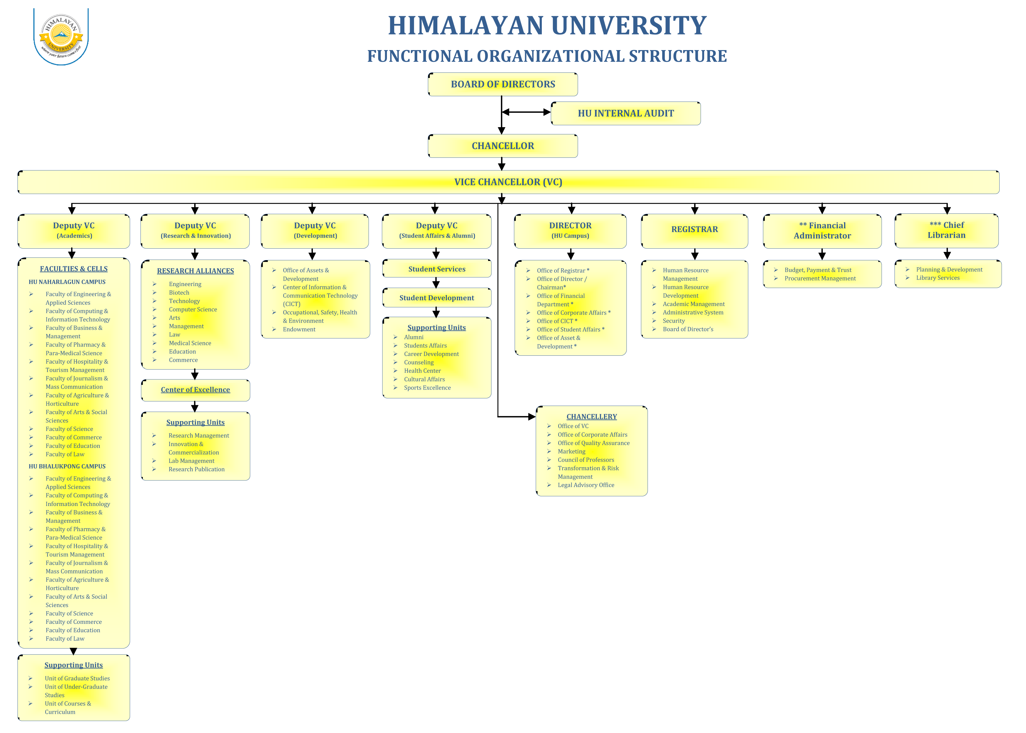 Himalayan University Academic Structure